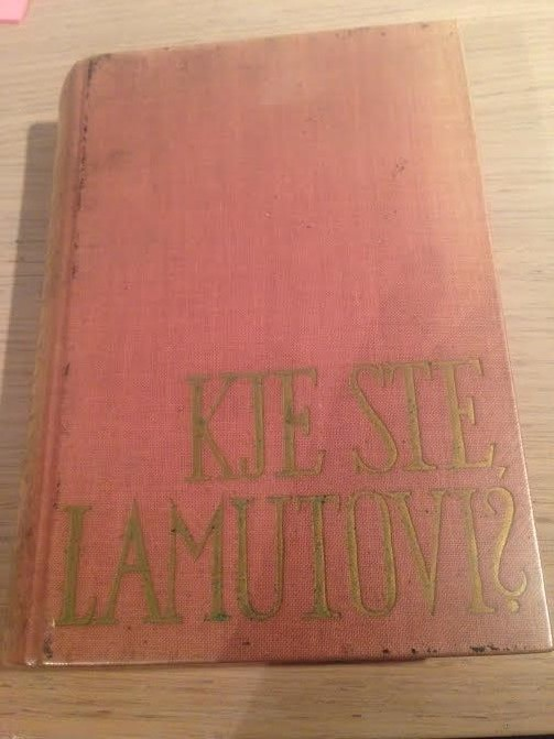 Kje ste, Lamutovi ?